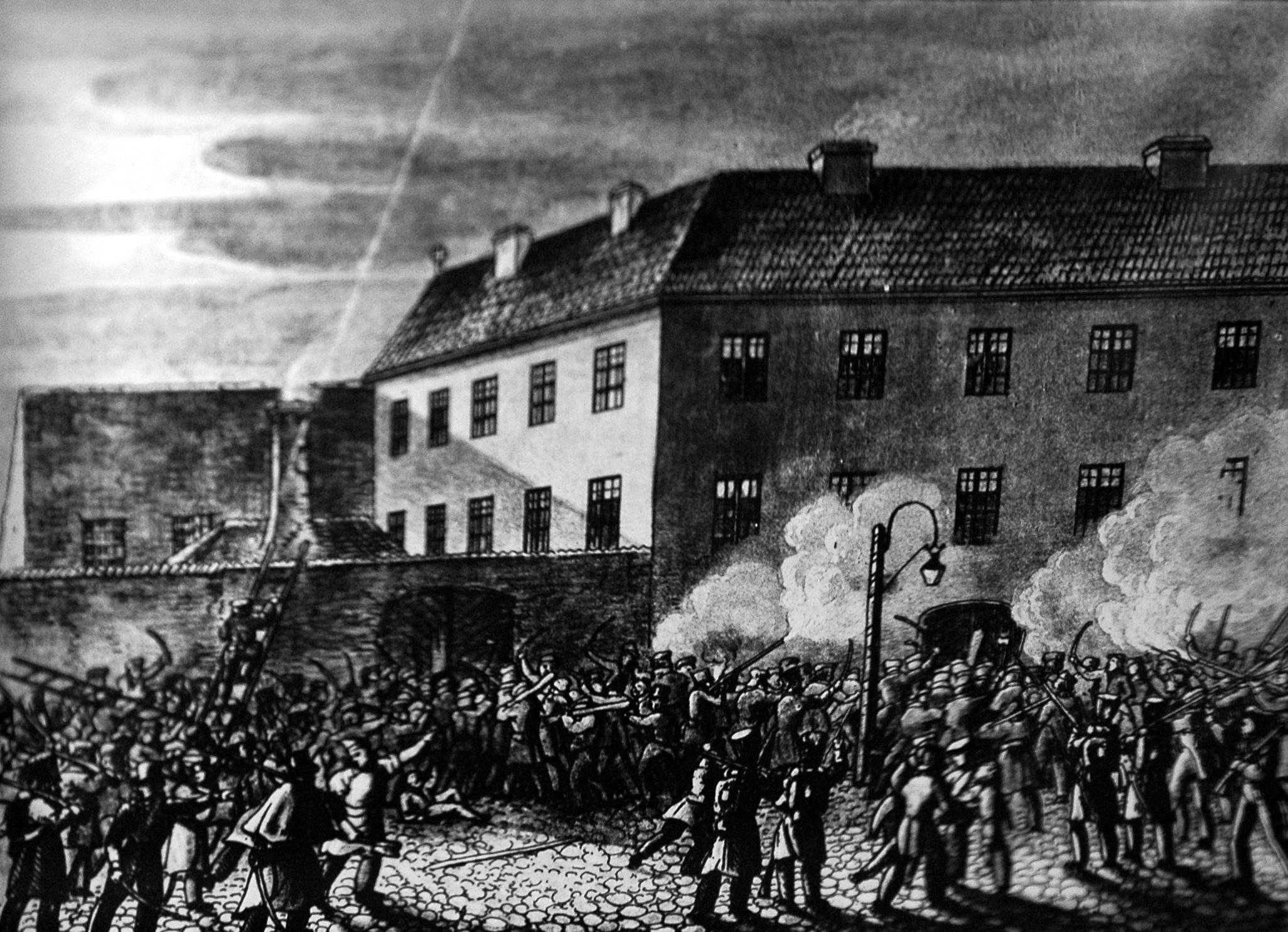 Made on a summer day in the Museum of the Polish Army in WarsawA series of anonymous xylographs depicting the early stages of the November Uprising in Warsaw, as well as the aftermath of the fights - the Great Emigration Prison at Leszno Street